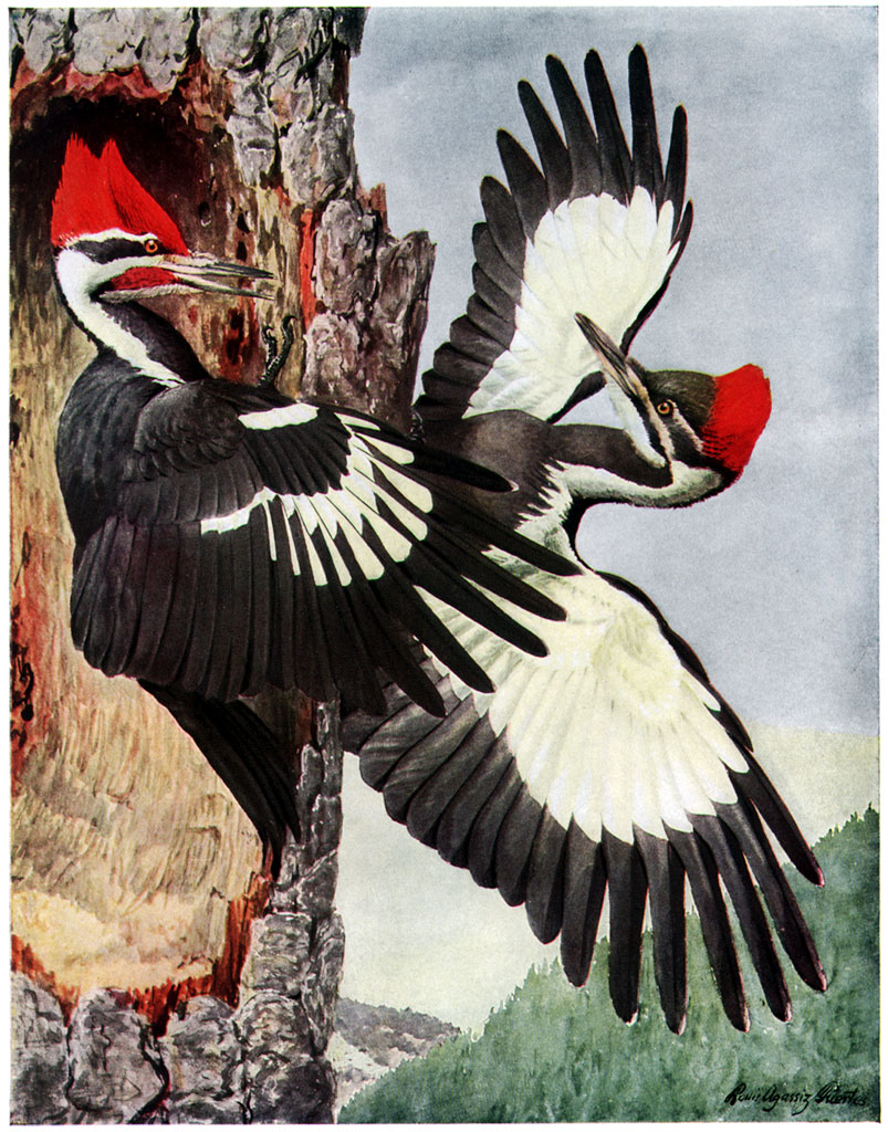 Pileated Woodpecker, Dryocopus pileatus, male (left), and female (right), offset reproduction of watercolor